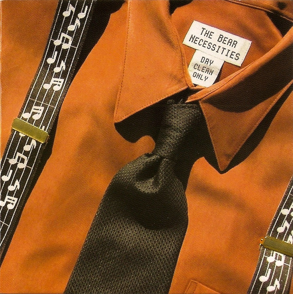 The Bear Necessities DRY CLEAN ONLY Front Cover.jpg